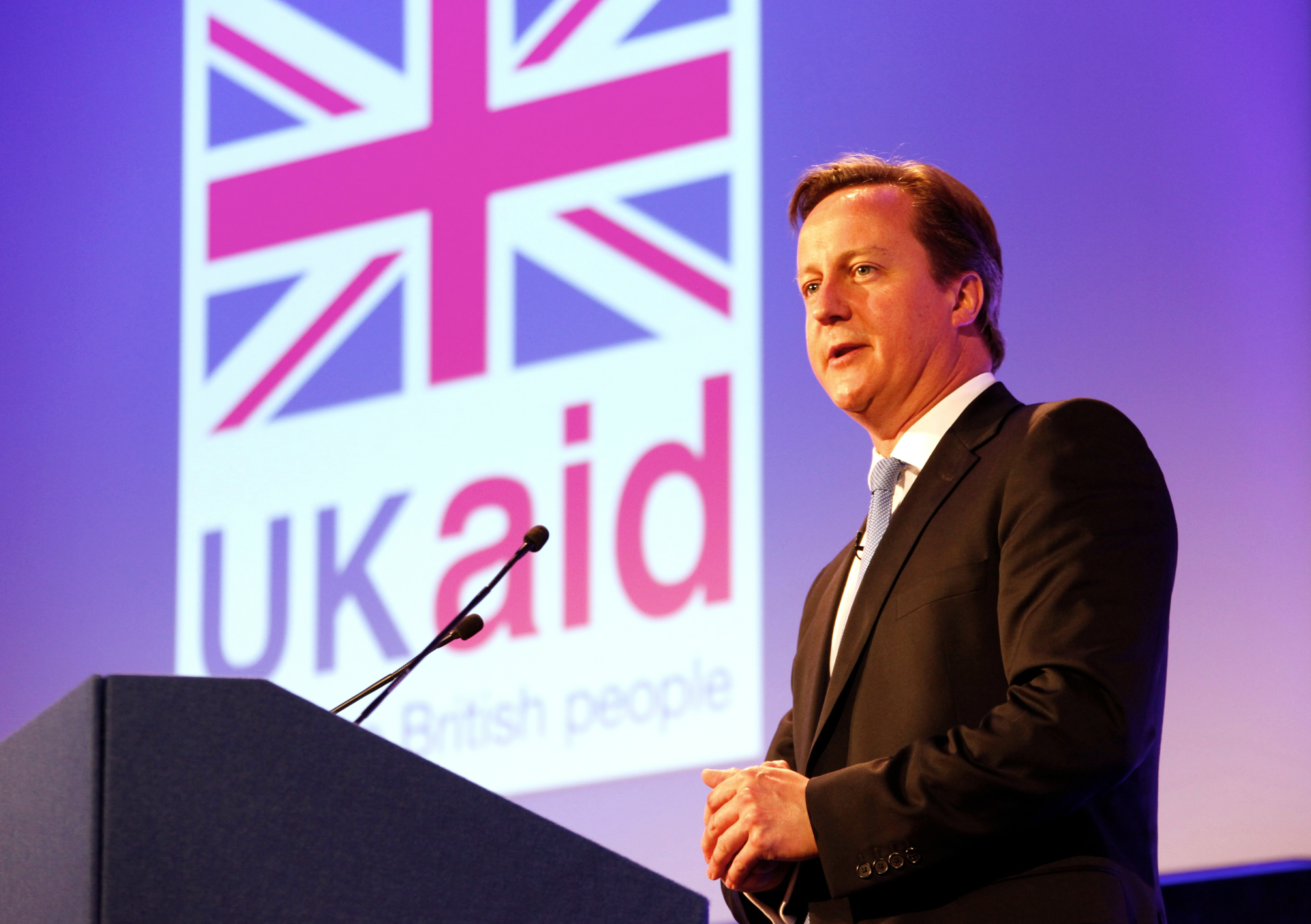 London, 11th July 2012. Prime Minister David Cameron, speaking at the London Summit on Family Planning. British aid will save the life of a woman or girl in the developing world every two hours for the next eight years, Prime Minister David Cameron said today at the London Summit on Family Planning. The British Government and co-host the The Bill and Melinda Gates Foundation brought together representatives from governments, the private sector, donors and civil society groups who pledged to halve the number of girls and women in developing countries who want - but lack access to - modern contraception. Britain’s support, which comes from the existing aid budget, will provide an additional 24 million girls and women with family planning services between now and 2020. This will prevent the deaths of around 42,000 girls and women for whom an unintended pregnancy carries the risk of fatal consequences. Developing countries at the summit made commitments to strengthen and promote women’s rights to family planning and increase access to information, services and supplies. This afternoon International Development Secretary Andrew Mitchell announced that the summit had met its target to provide family planning to 120 million more women. Andrew Mitchell said: "This is an extraordinary breakthrough for millions of the world's girls and women. Thanks to the pledges made today 120m more women will be able to choose whether when and how many children to have. "Being able to plan the size of her family is a fundamental right that we believe all women should have. Britain has put girls and women at the heart of our development programme and now others are following suit."